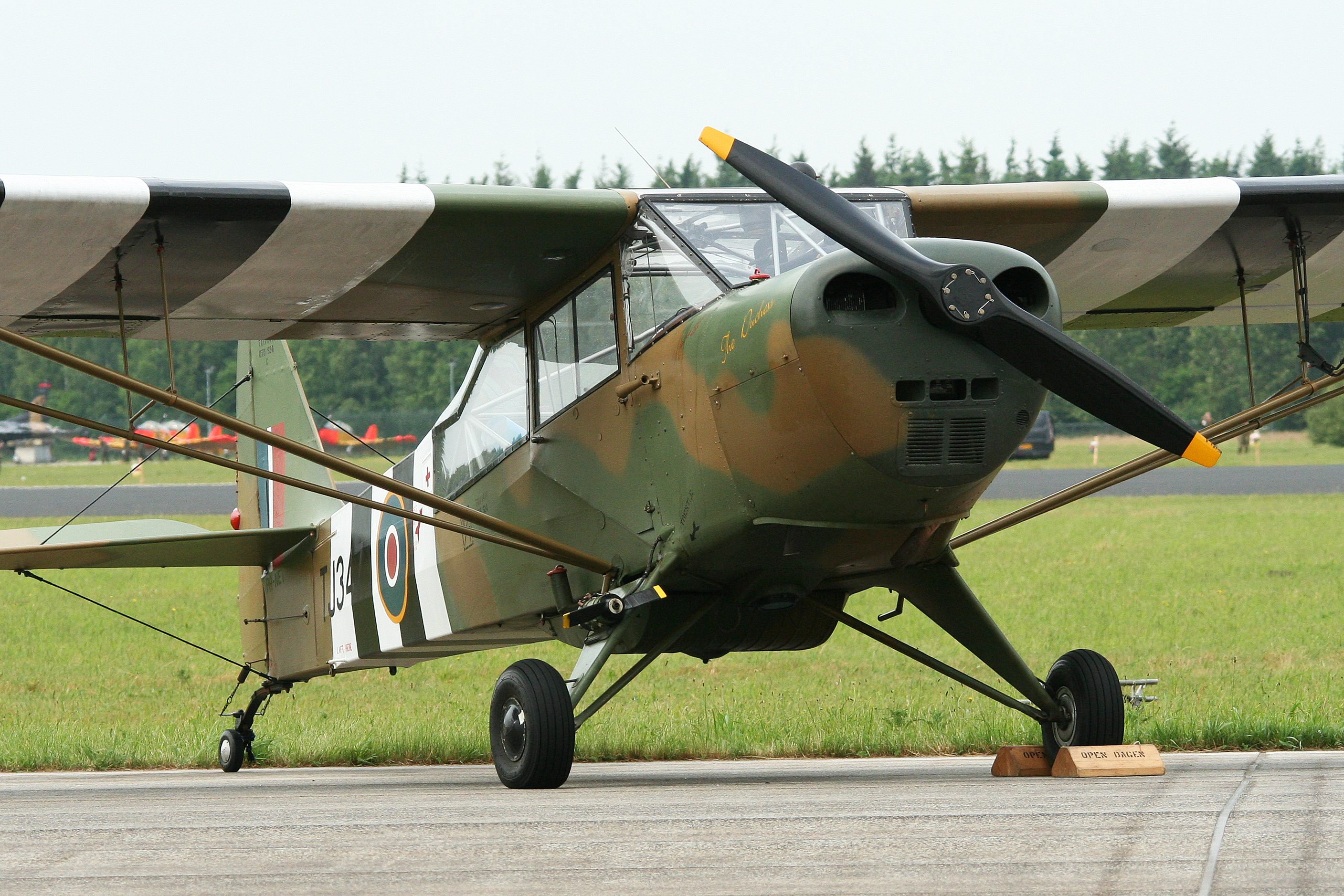 In genuine markings as 'TJ347'. c/n 1416. On static display at the '100th Anniversary of Dutch military aviation' airshow. Volkel Air Base, Netherlands. 14-6-2013